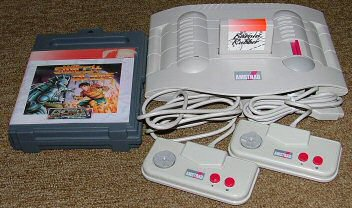 Amstrad GX4000 console with two game pads and a game, Switch Blade